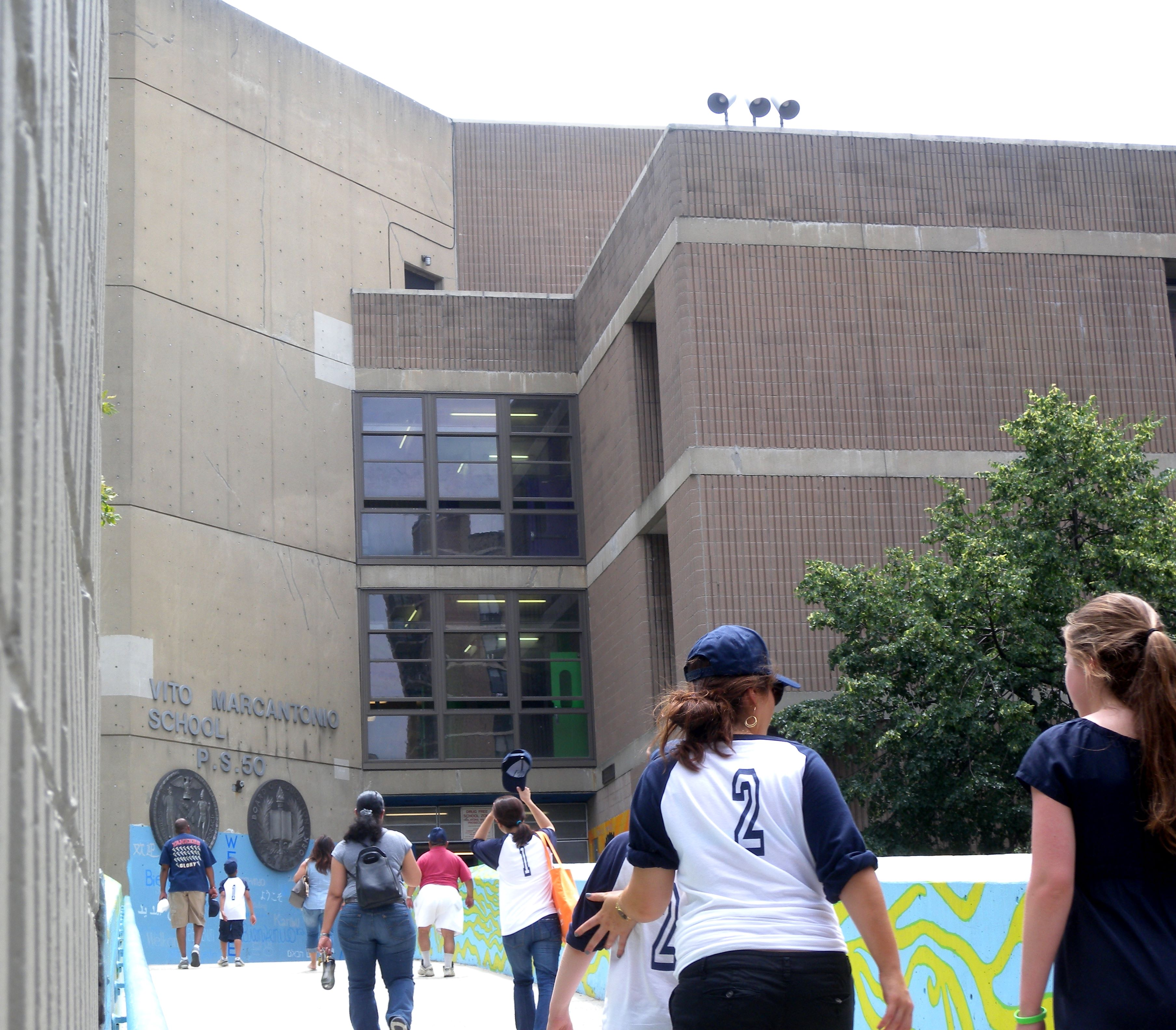 Looking southeast at PS 50 entry ramp on a mostly cloudy midday.